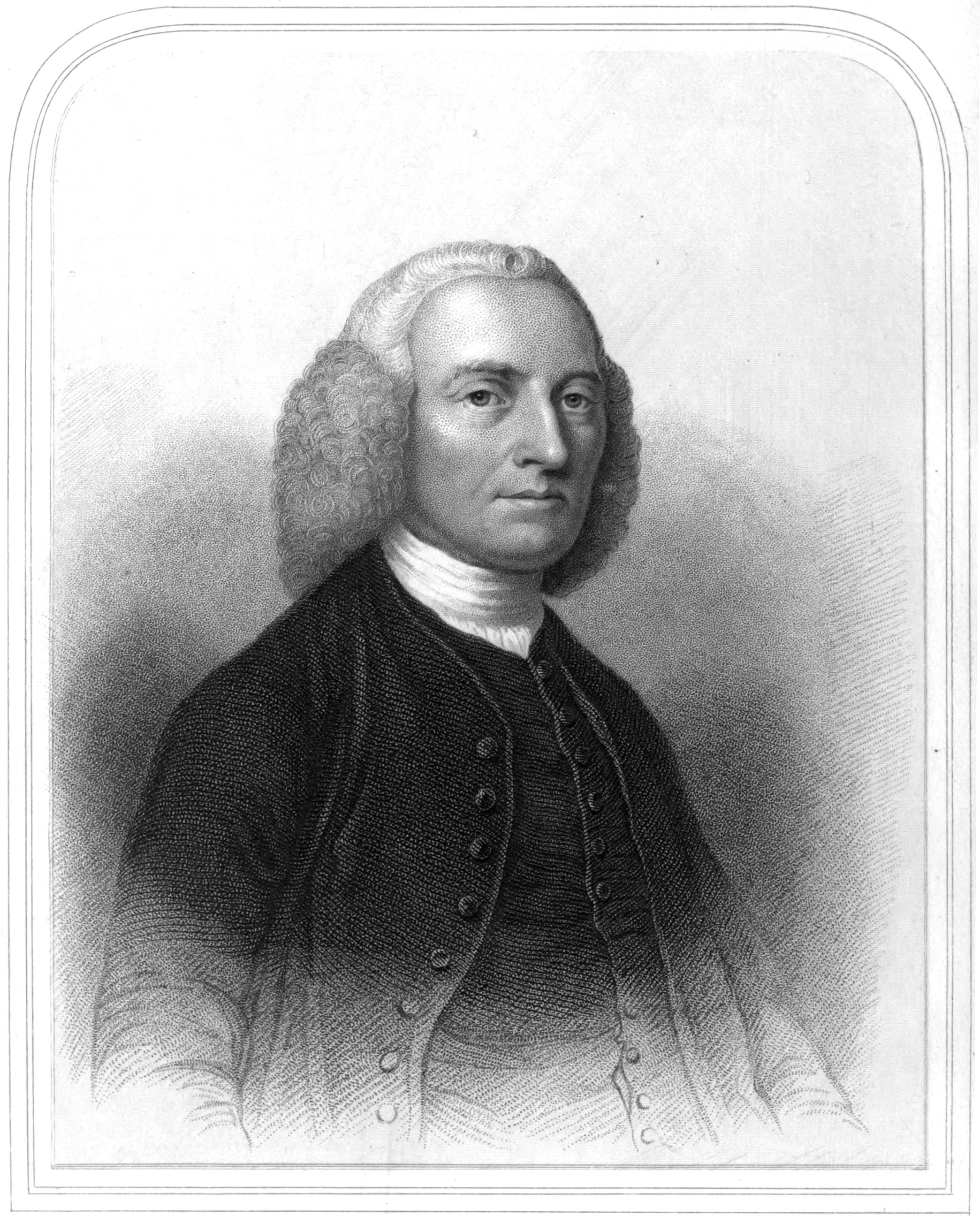 Author transcribed at Wikisource Start this Book Editor various editors TitleA biographical dictionary of eminent ScotsmenSubtitle in four volumes Volume 2 Printer W.G. Blackie and Co. Year of publication 1857 InstitutionUniversity of TorontoOther versions Page 14 illustration (A biographical dictionary of eminent Scotsmen, vol 2).png